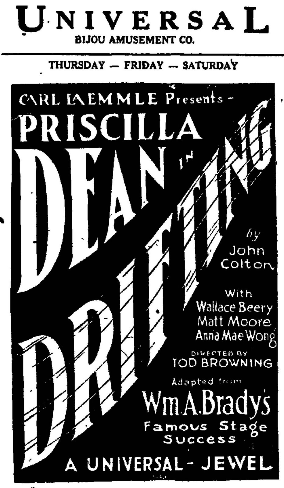 Promotional poster for the American silent drama film Drifting (1923).